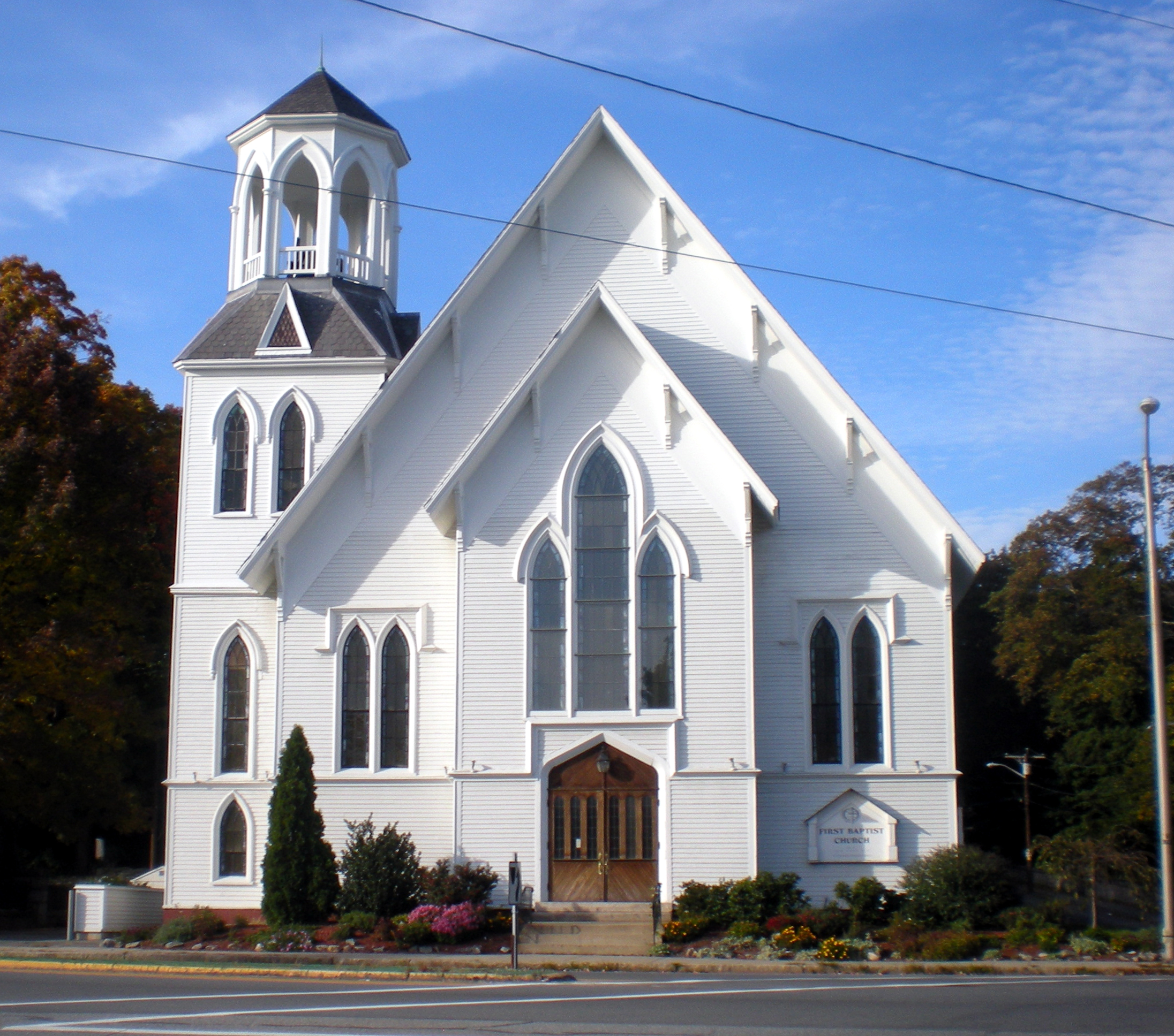 First Baptist Church 253 Lawrence Street in Methuen, Massachusetts.